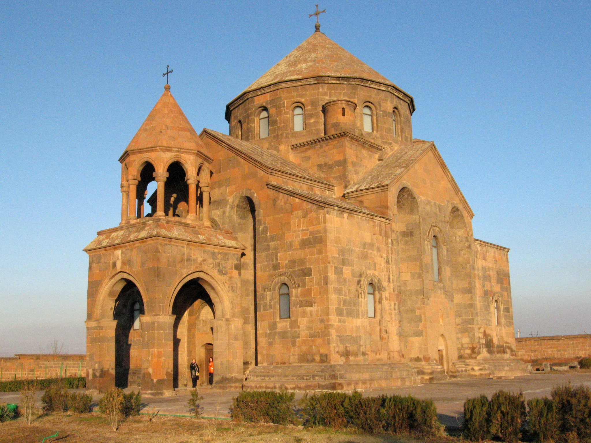 The 7th century Armenian church of Saint Hripsime in Ejmiatsin, Armenia, a UNESCO World Heritage Site.